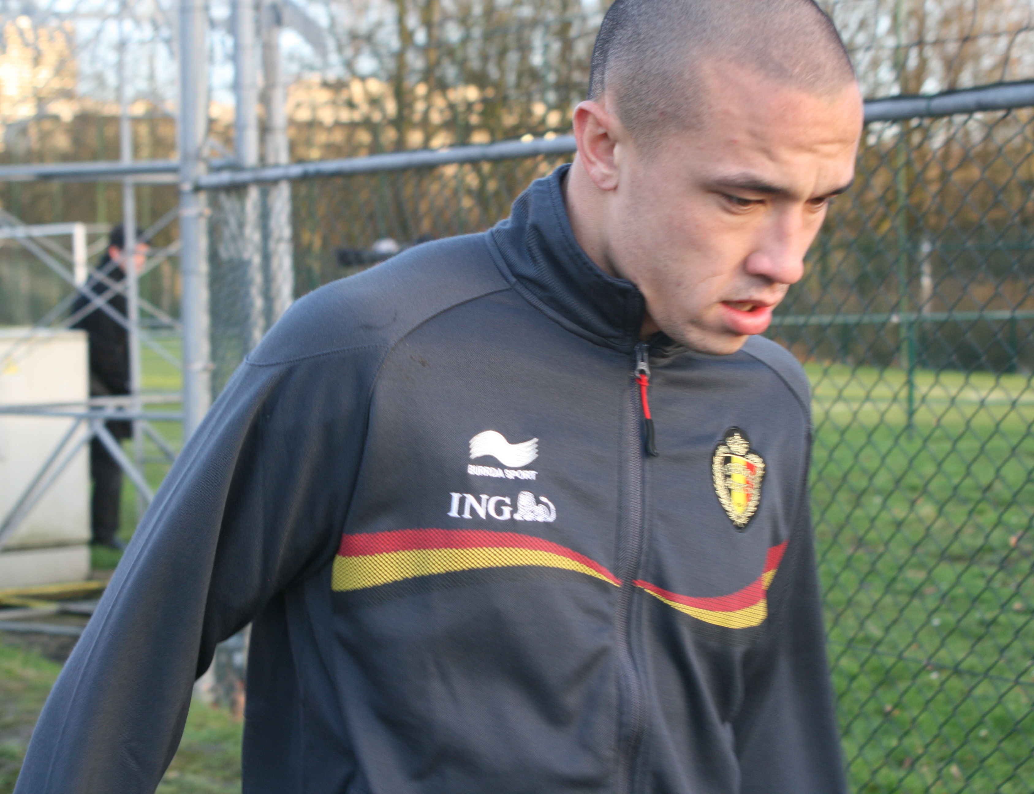 Radja Nainggolan during a training session with the belgian Red Devils